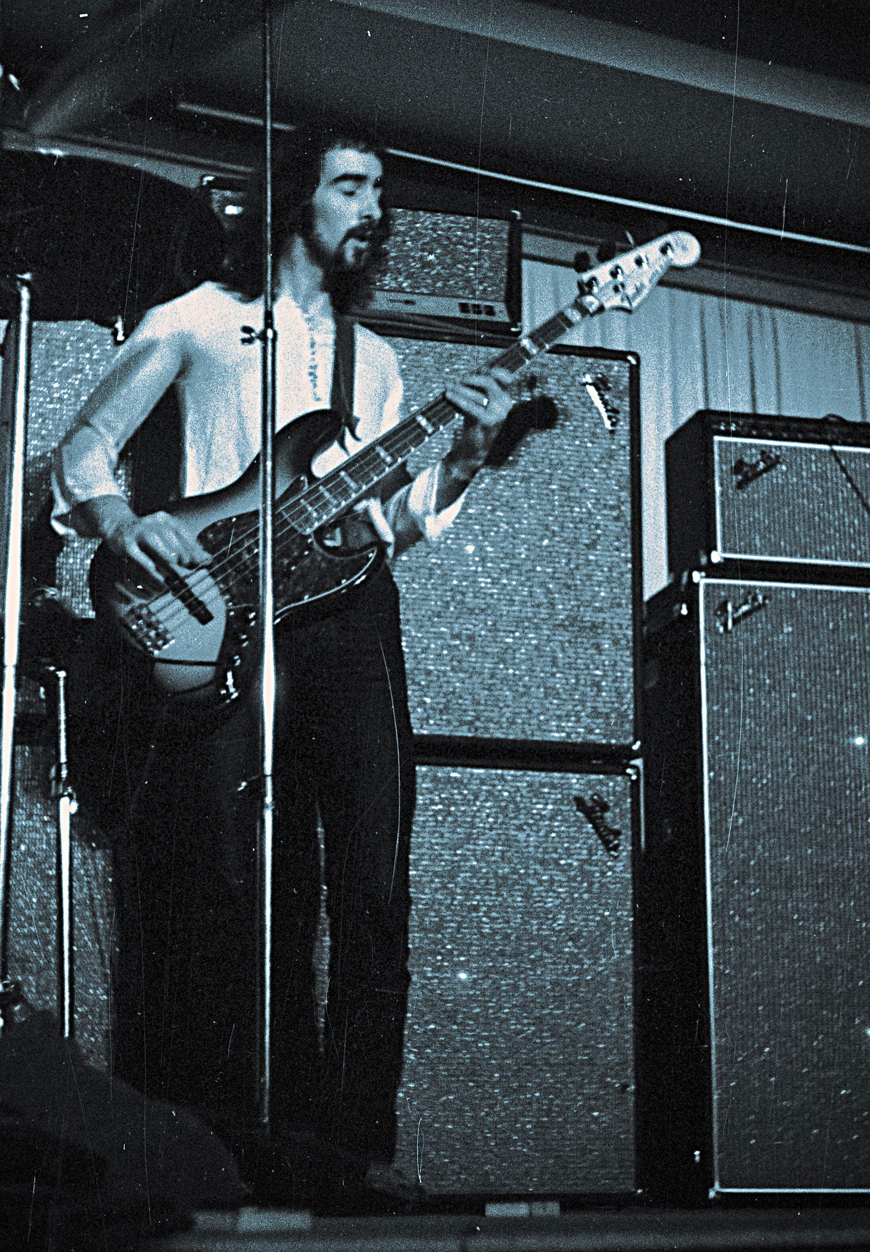 John McVie, Fleetwood Mac, March 18, 1970 Niedersachsenhalle, Hannover, Germany The Touring Band: Mick Fleetwood - Percussion, Peter Green - Lead Vocals/Guitar/Harmonica (left band in May), John McVie - Bass Guitar, Jeremy Spencer - Vocals/Guitar, Danny Kirwan - Vocals/Guitar